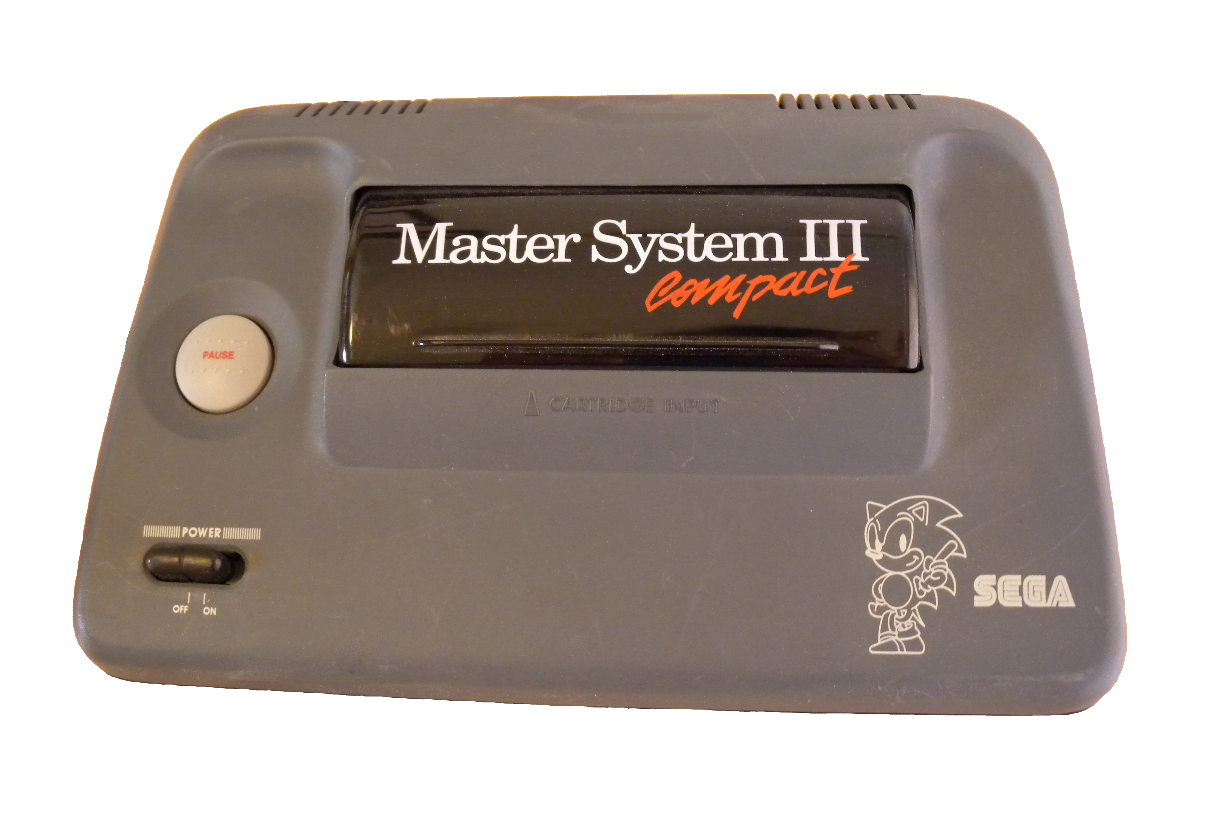 Brazilian "Sega Master System III" manufactured by TecToy, transparent version modified by Abani79